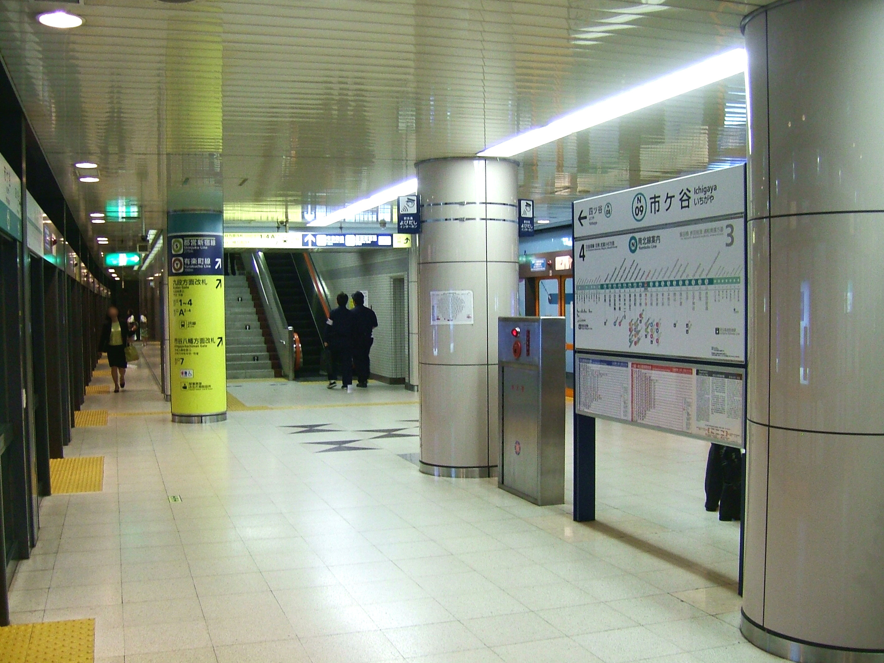 Ichigaya Station platform (Tokyo Metro Namboku Line)